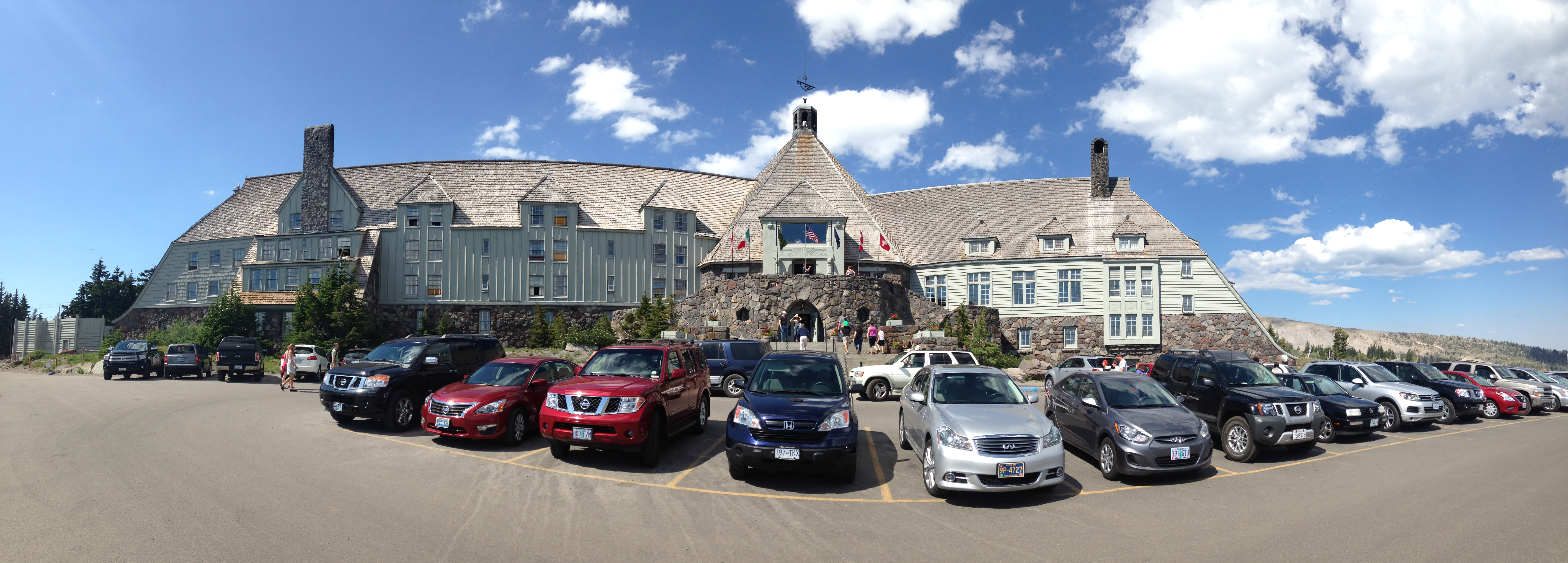 Annual Visit to Portland (Hillsboro) Oregon